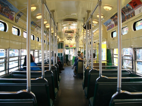 Interior of Muni PCC car 1057.